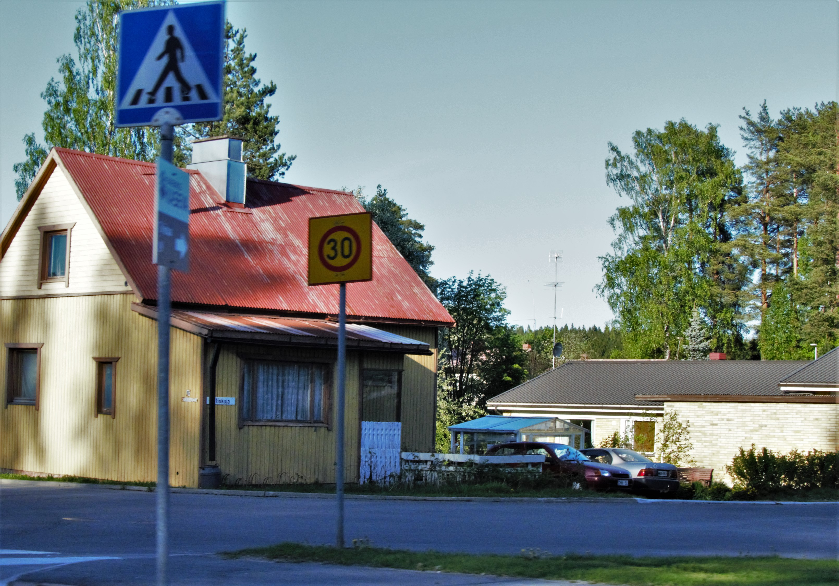 Valkola area in Jyväskylä